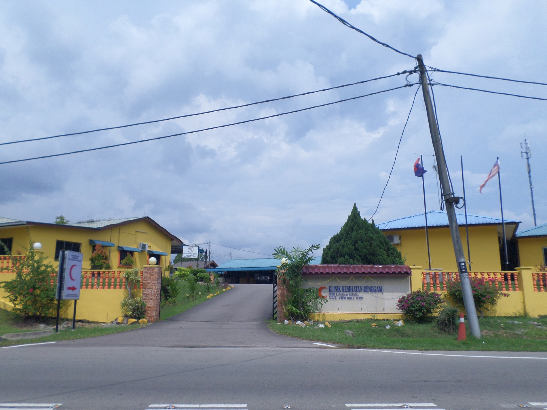 Renggam Health Clinic, Renggam, Kluang, Johor, Malaysia